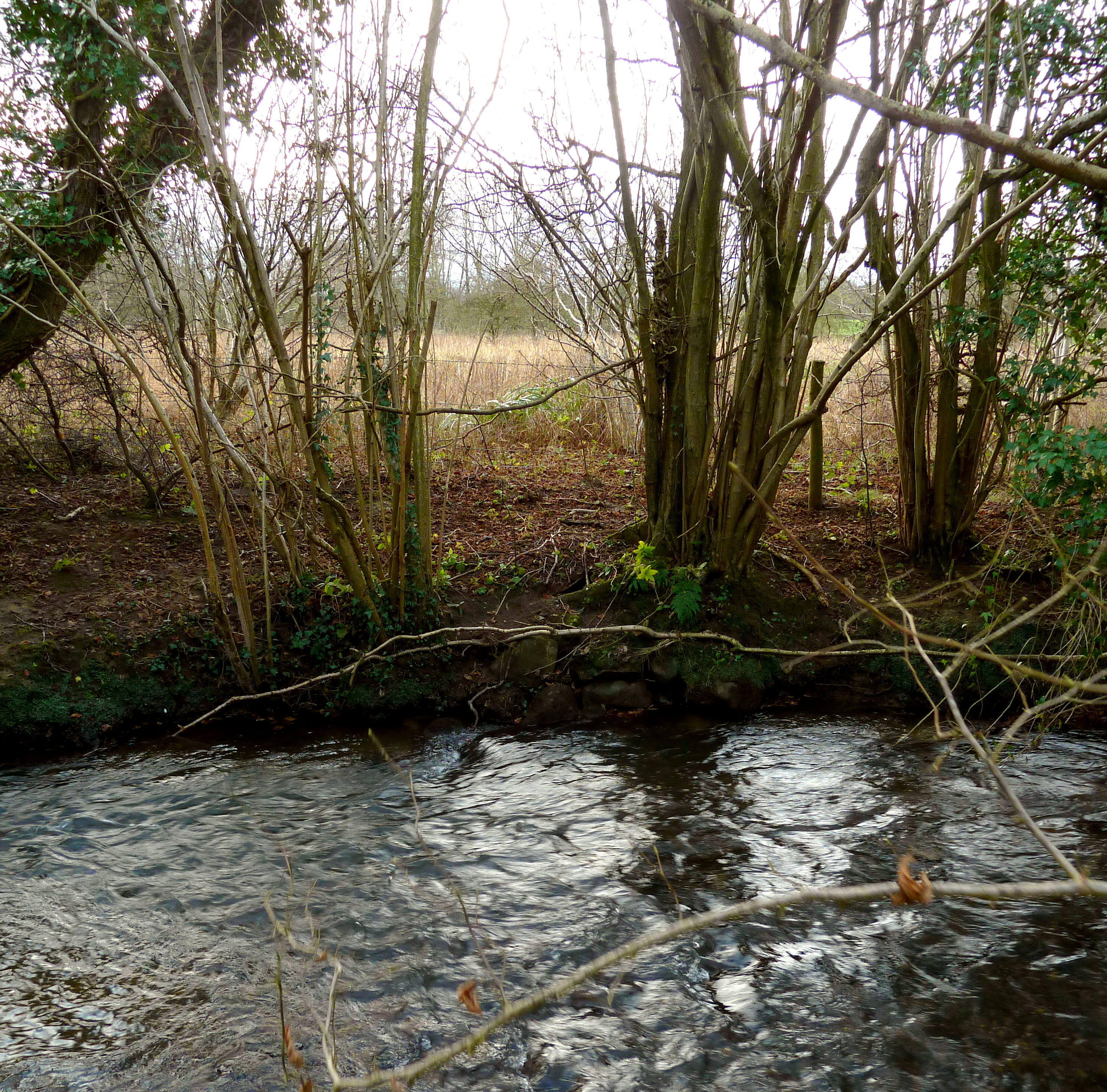 Cow Myers, Site of Special Scientific Interest (SSSI), between Ripon and Kirkby Malzeard, North Yorkshire, England. This site consists of fen (wetland with reeds) encircled by carr (wetland with trees). There is no public access or vehicle access to this site. Showing glimpse of central fen, behind barbed wire and fast-flowing Kex Beck.